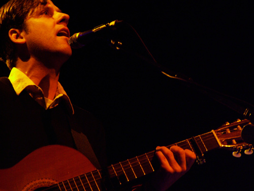 Joey Burns from Calexico